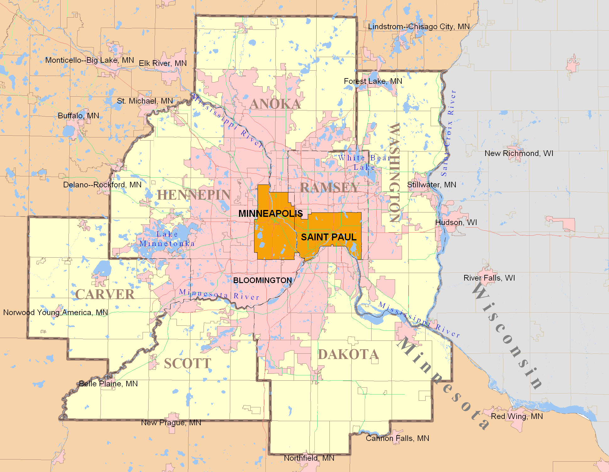 Twin Cities 7-County Metropolitan Area with labels. The grey shaded portion is Wisconsin. Note this 7-County definition is outdated by the expanded 11-County metro map which includes counties in Wisconsin (search Commons for it). The U.S. Census Bureau sets these definitions which were adopted by the regional government (Metropolitan Council). This map has some slight errors. All pink areas are "urbanized areas" meaning serviced by some wastewater agency and not zoned rural. However only the contiguous pink area stretching from the two core cities of Minneapolis and Saint Paul are considered part of the metropolitan Twin Cities which are both defined by law and by cultural consciousness. This contiguous urban area is called the Metro Urban Service Area boundary (MUSA) as defined by the Metropolitan Council, the regional government. The regional wastewater system allows high-density development. Some of the outer cities (small towns) are connected to the the regional system noted by the updated 11-County map. Other lines: The greyish grid-like lines are municipal boundaries of the many suburbs surrounding the core cities of MSP. As you can see some suburbs have non-urbanized areas. The light red lines that seem to weave the inner area of the pink is the interstate highway system, which is now eclipsed by an expanding urban area. The urbanized area answers to the Met Council and not the core cities of Mpls or StP. As you can see, the ratio of actual core city area is very low. Map is produced via MapInfo Professional using only publicly available data from government agencies.